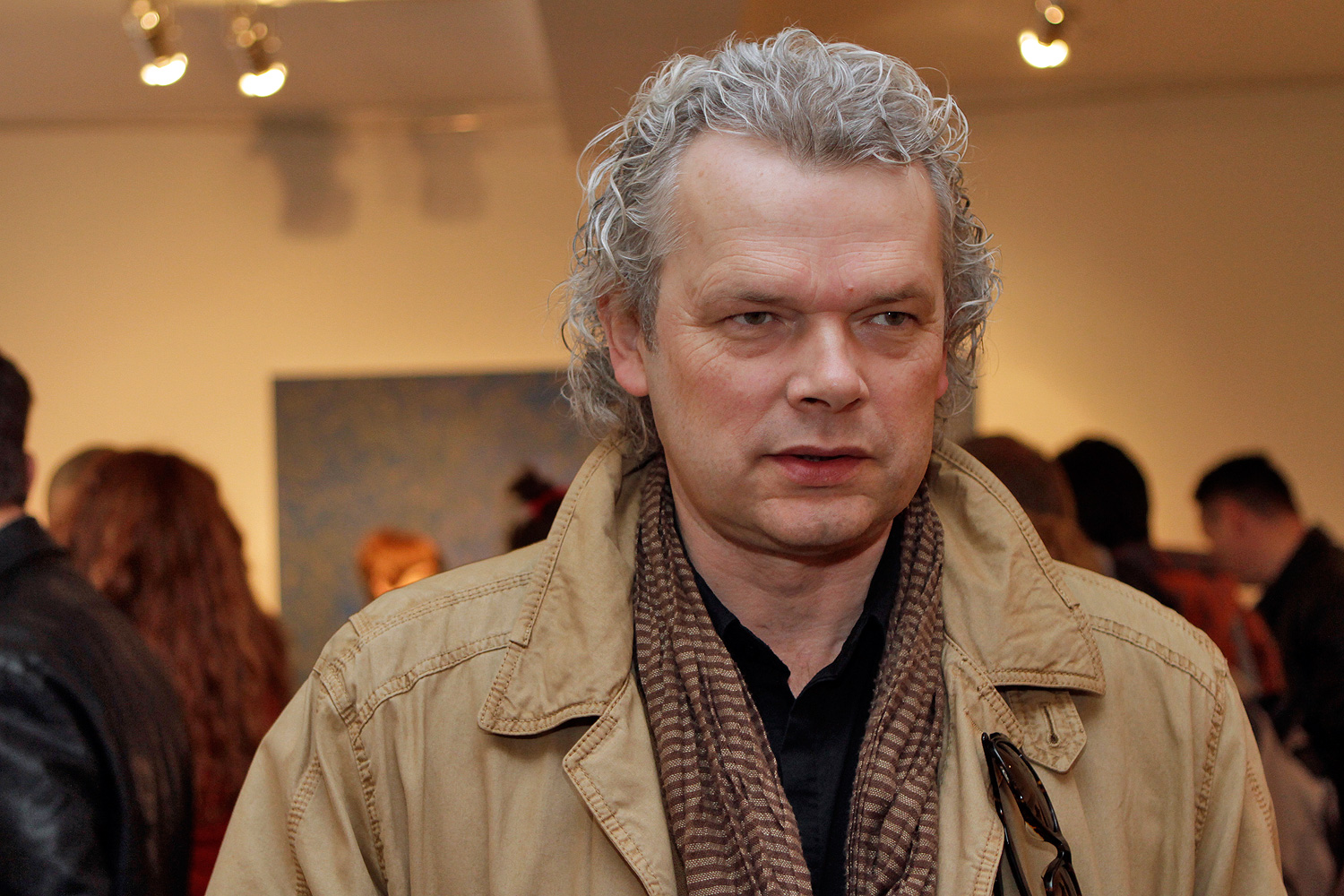 Politician Klemensas Rimšelis